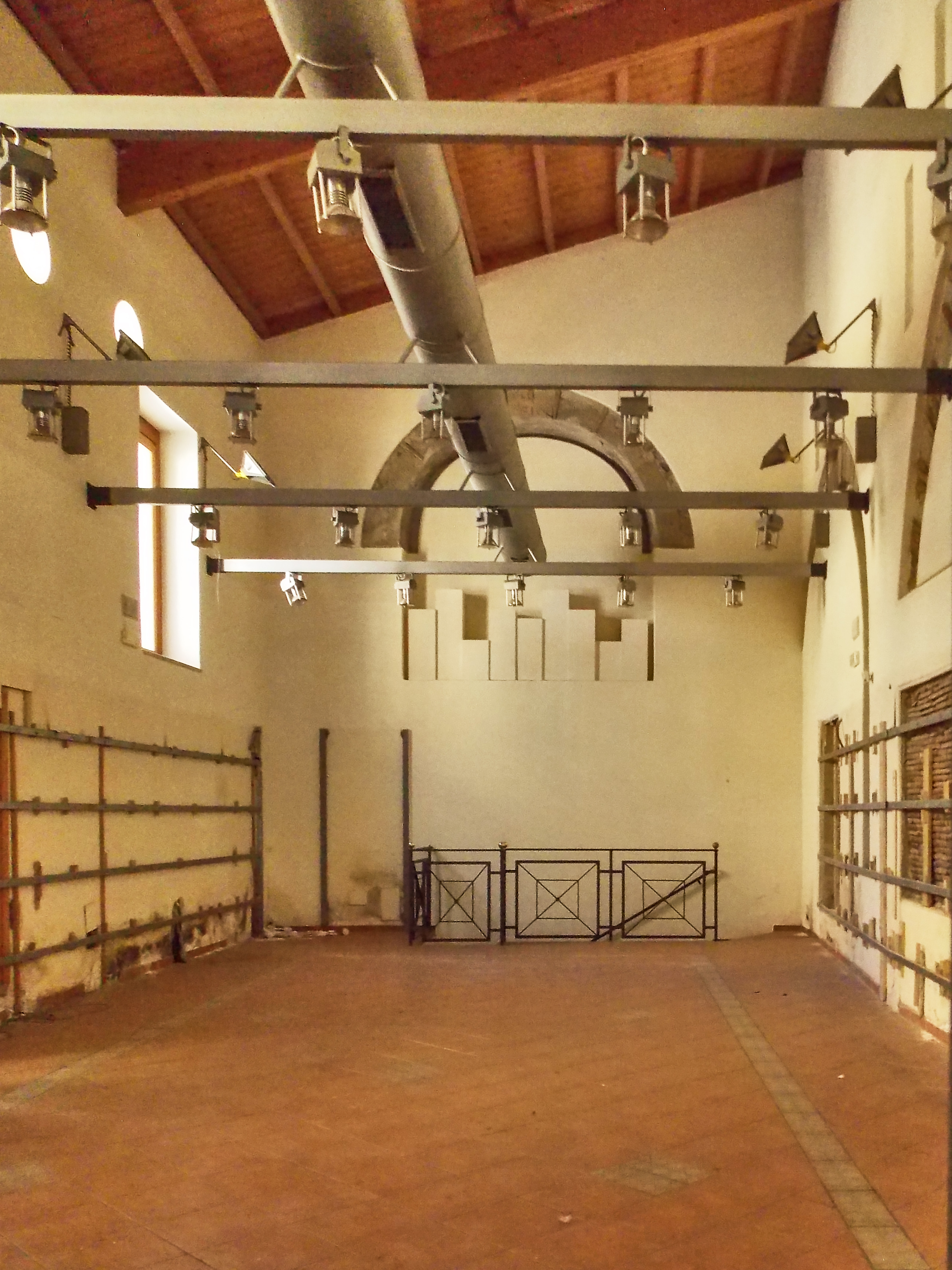 La chiesa sconsacrata di Santo Stefano dei Neofiti, nel quartiere ebraico di Benevento